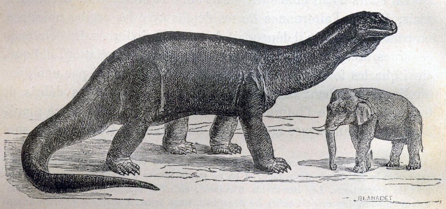 Lithographic life restoration of the sauropod dinosaur Atlantosaurus compared in size to an elephant. Dutch translation caption: Fig. 222. Waarschijnlijke vorm en grootte van eenen atlantosaurus: het grootste dier der schepping (35 meters). Published in De Wereld vóór de schepping van den mensch by Nicolas Camille Flammarion in 1886, original titel "Le Monde avant la création de l’homme, (1886)"